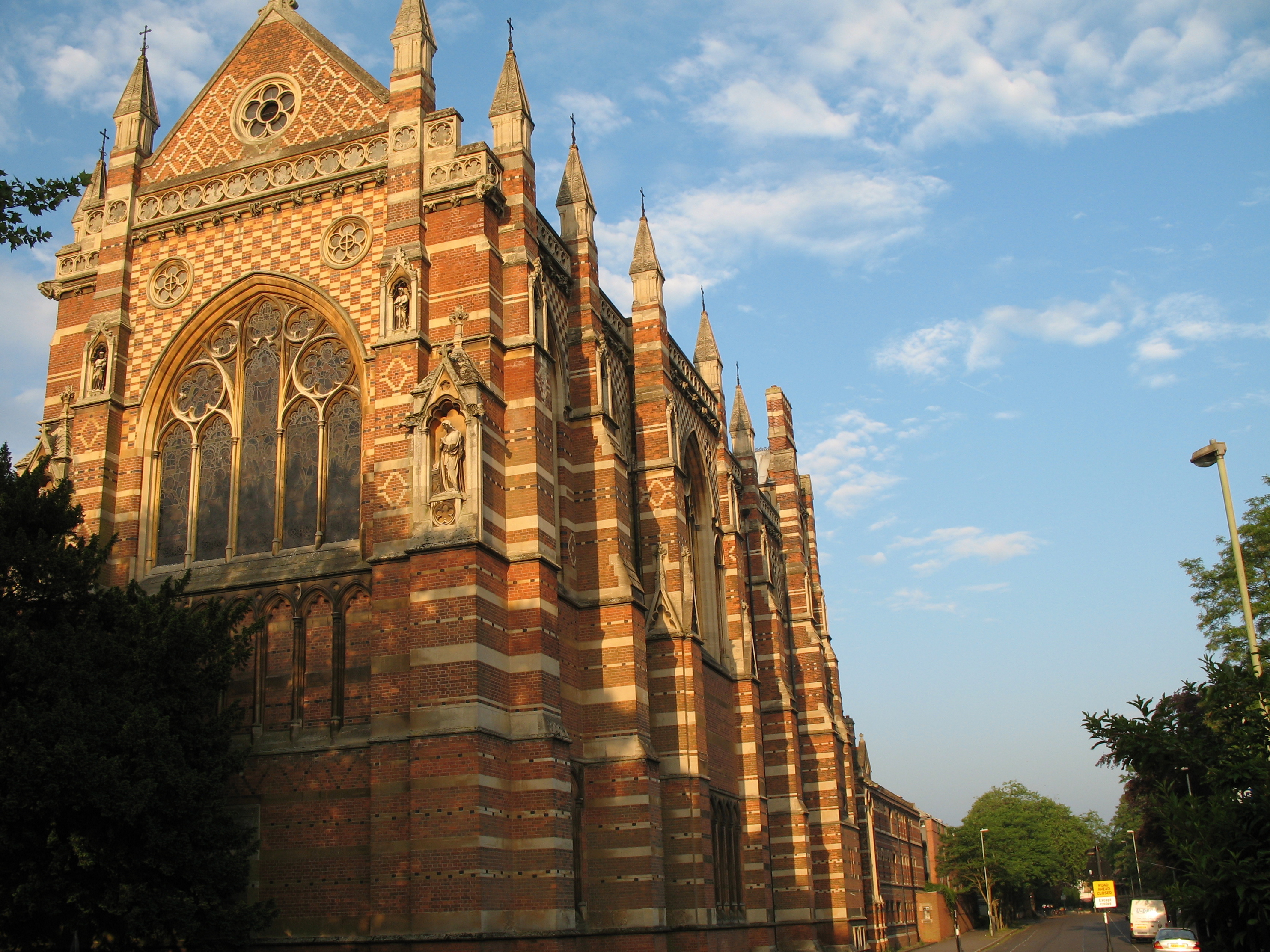 View of Keble College Chapel from Parks Road